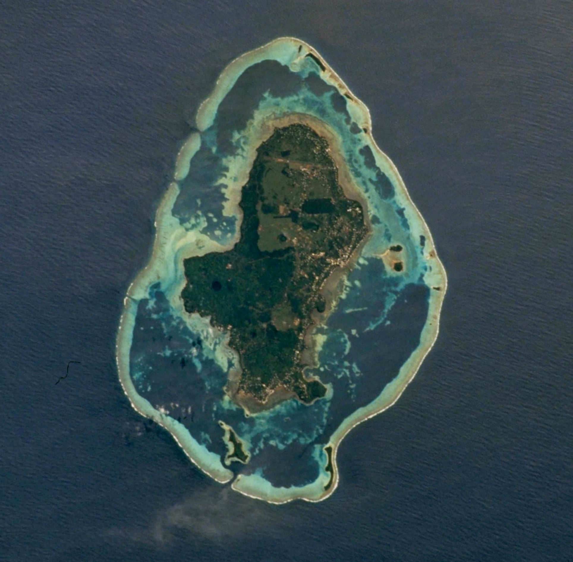 Retouched picture of Wallis island (South Pacific). Contrast improved, cropped picture + rotated